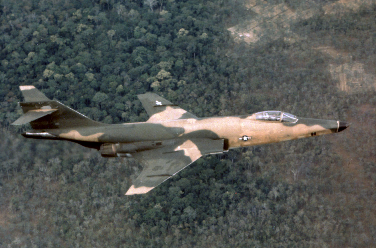 A U.S. Air Force McDonnell RF-101C Voodoo in flight over Vietnam in May 1967.